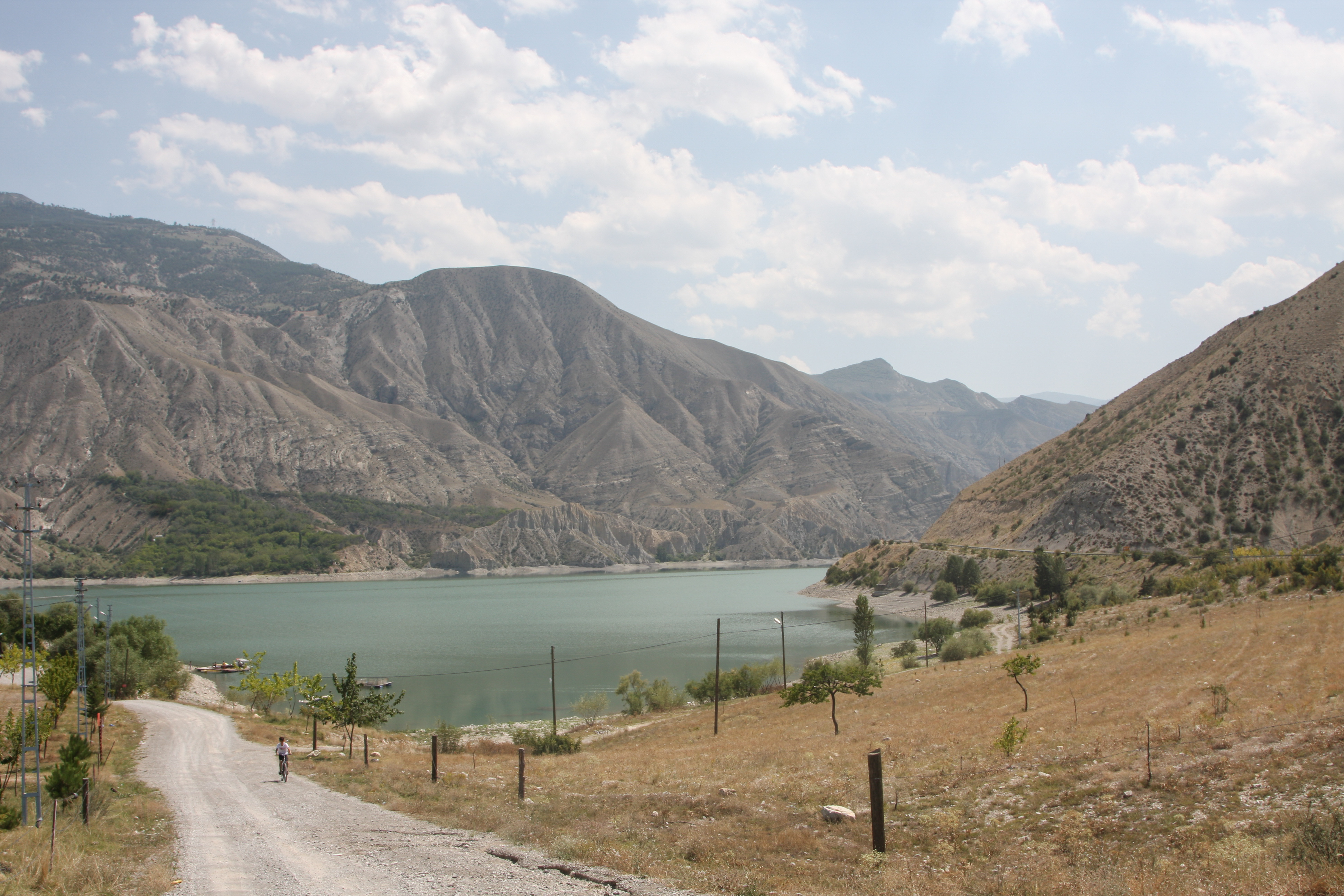 Tortum Lake in Erzurum